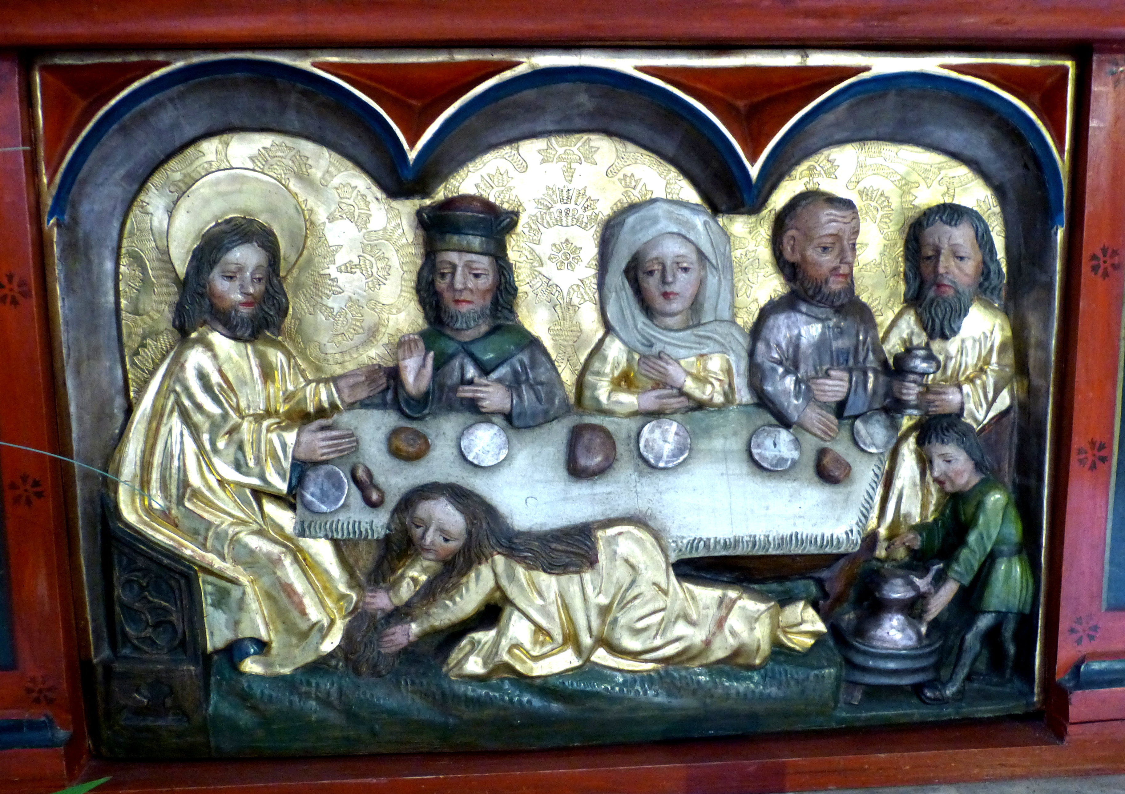 Wassertrüdingen ( Bavaria ). City church: Gothic altar of the adoration of the Magi ( late 15th century ) - Predellla: Mary Magdalene washing the feet of Jesus.